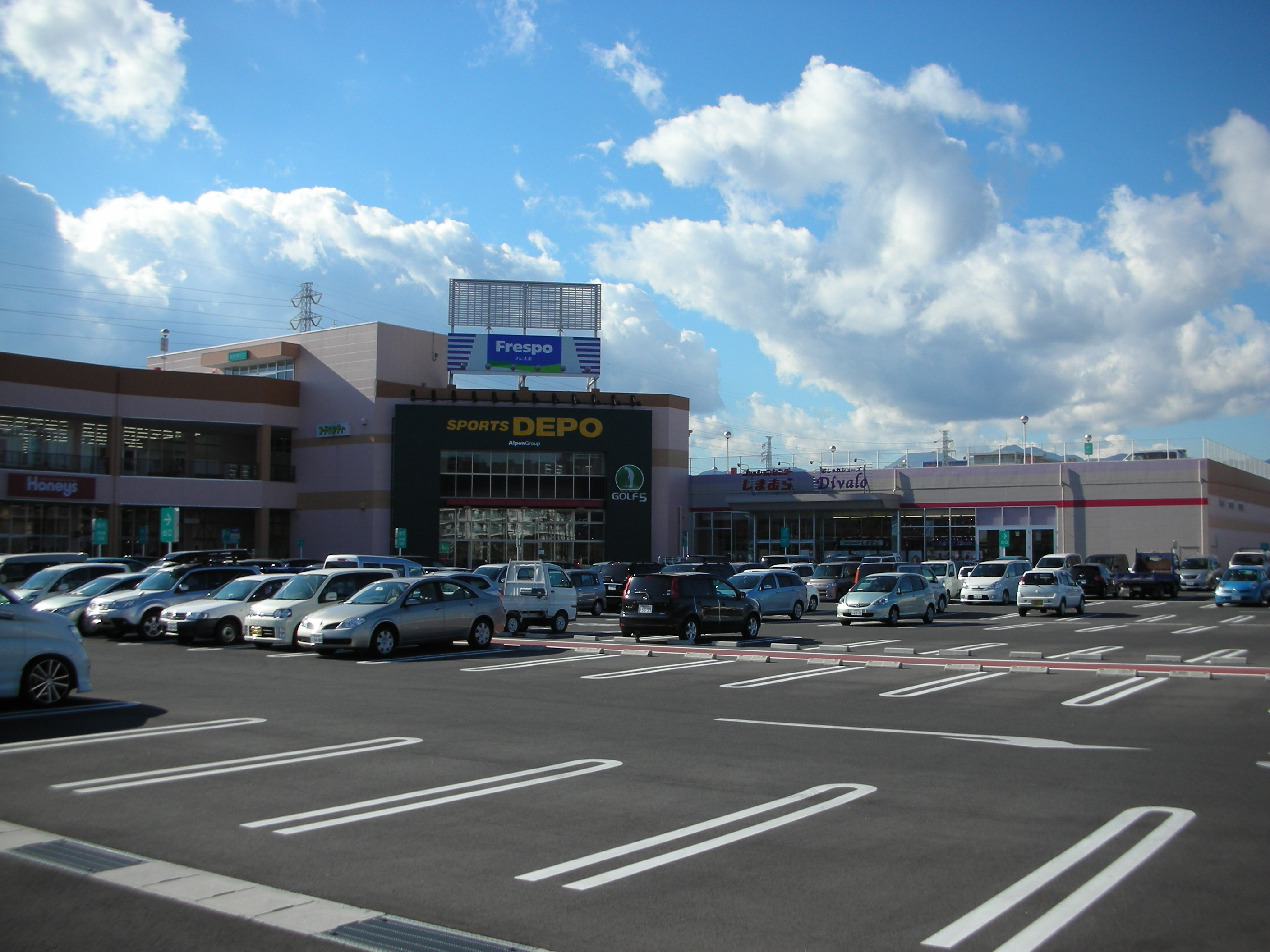 Frespo Odawara